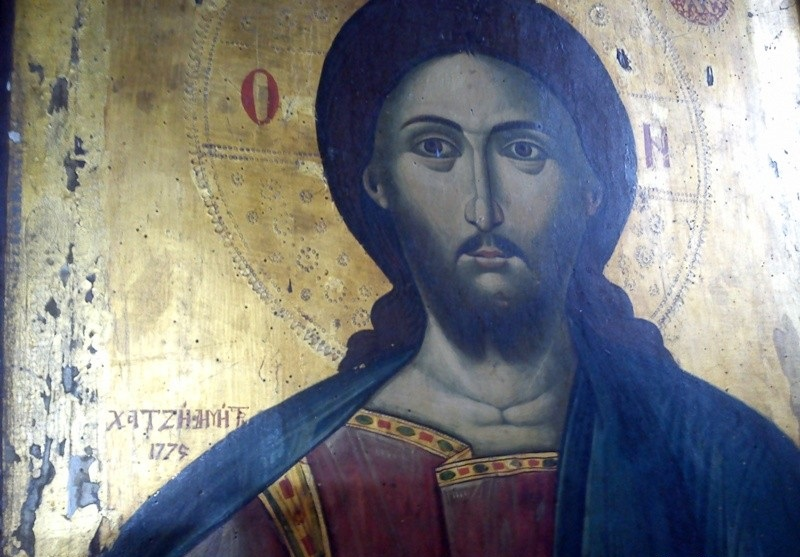 Christ Icon from Saint Demetrius Church in Prilepets